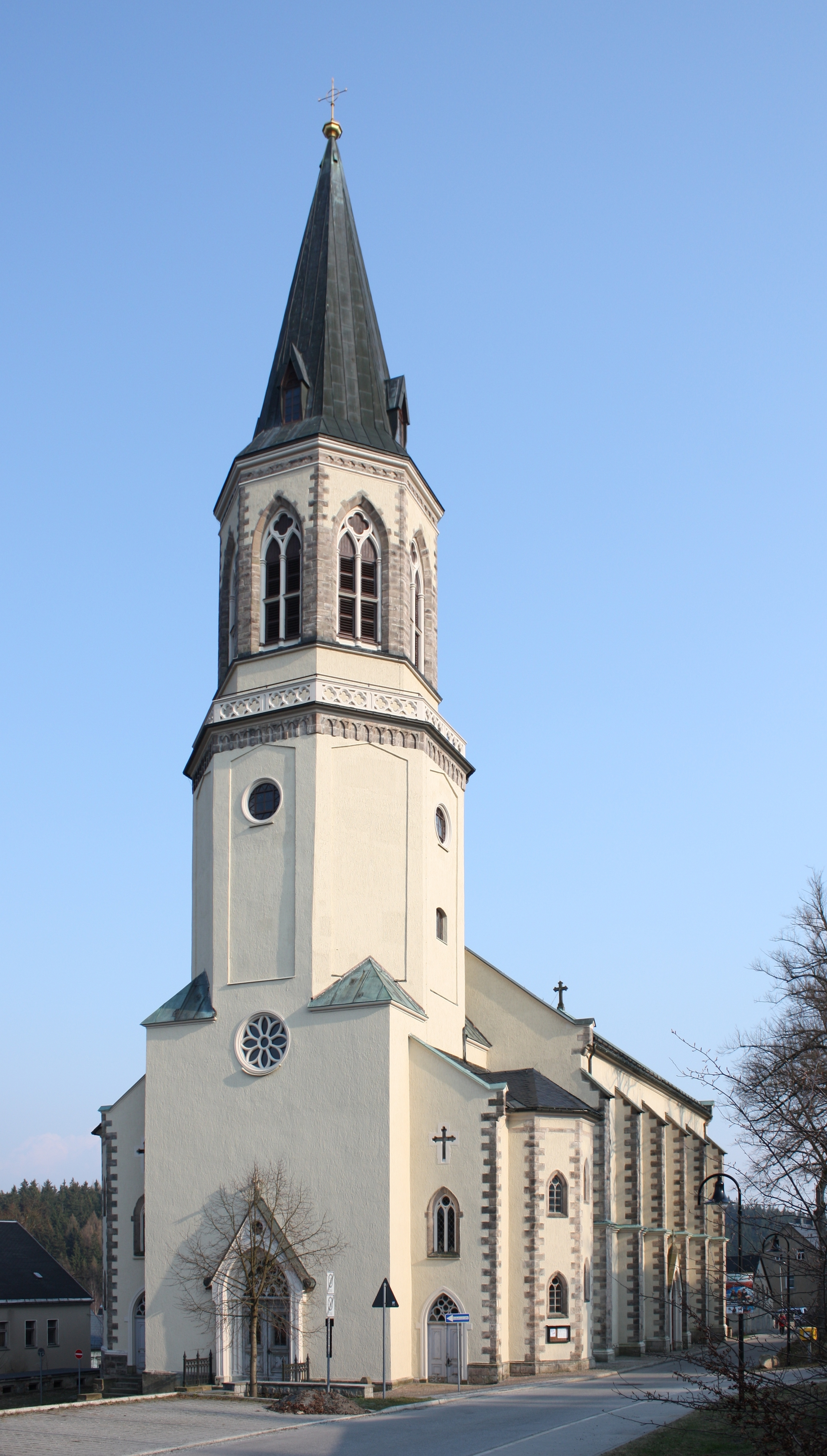 Johanngeorgenstadt Church